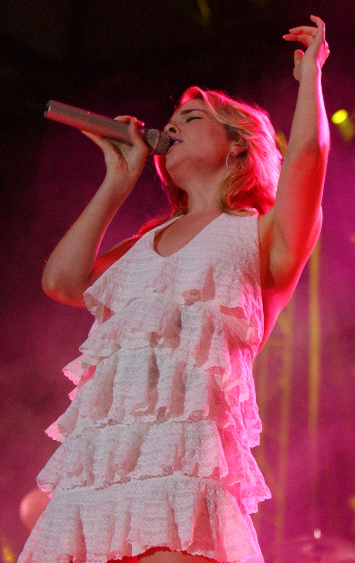 LeAnn Rimes performs for military members while visiting here Sept. 23., 2004. The concert was part of a promotion by the wing's 435th Services Squadron.